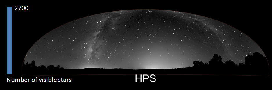 Modeled sky glow with high-pressure sodium lighting - Town of Flagstaff AZ as viewed from Walnut Canyon National Monument.